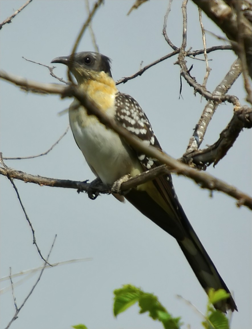 Cucut reial - Críalo - Great Spotted Cuckoo - Clamator glandarius, Barcelona, Spain